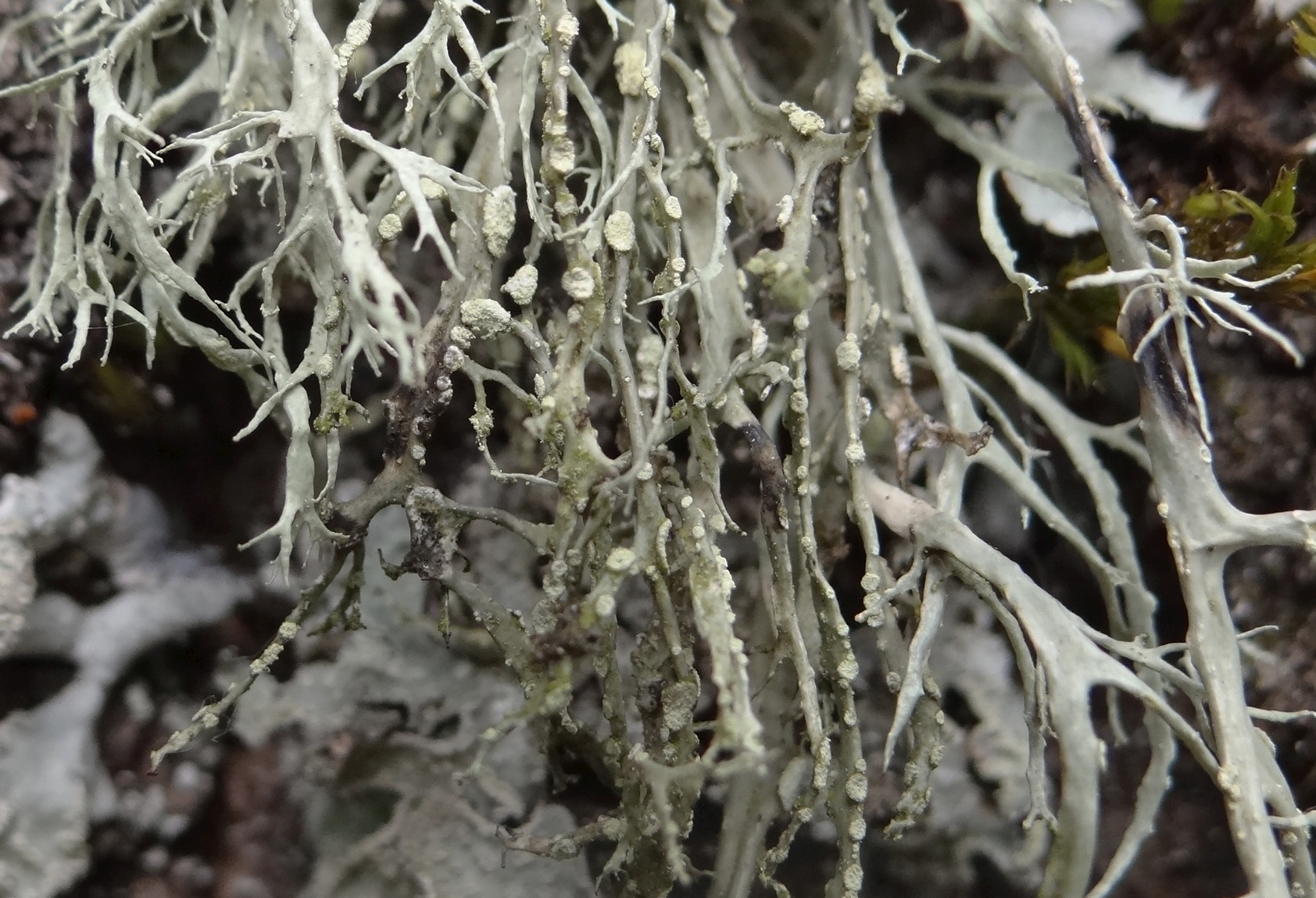 Ramalina farinacea and Parmelia sulcata on Fraxinus (location:Slovakia, Vyšné Ružbachy, park)